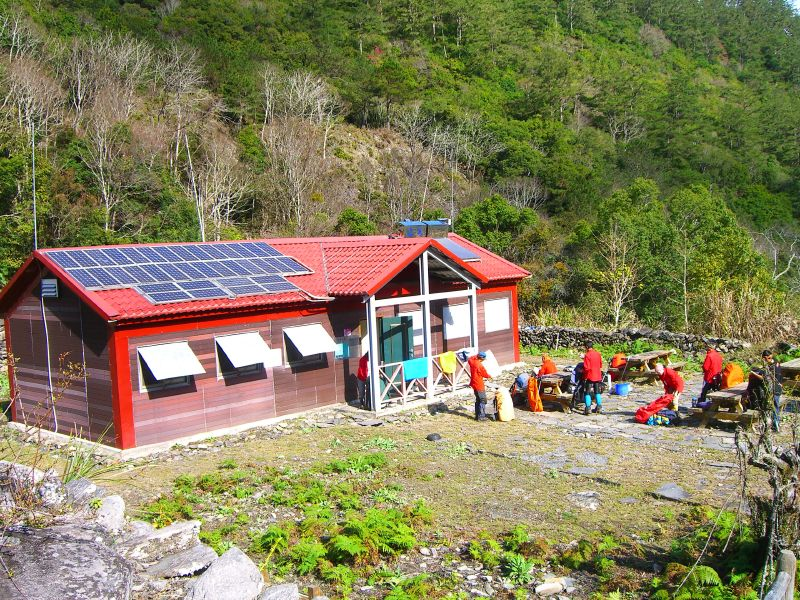 Dafen Cabin is a preferred choice of accommodations for overnight backpackers to Jade Mountain. It was located on a fluvial terrace between the Laku Laku River and the Kuokuosi River in Yushan National Park, Taiwan.